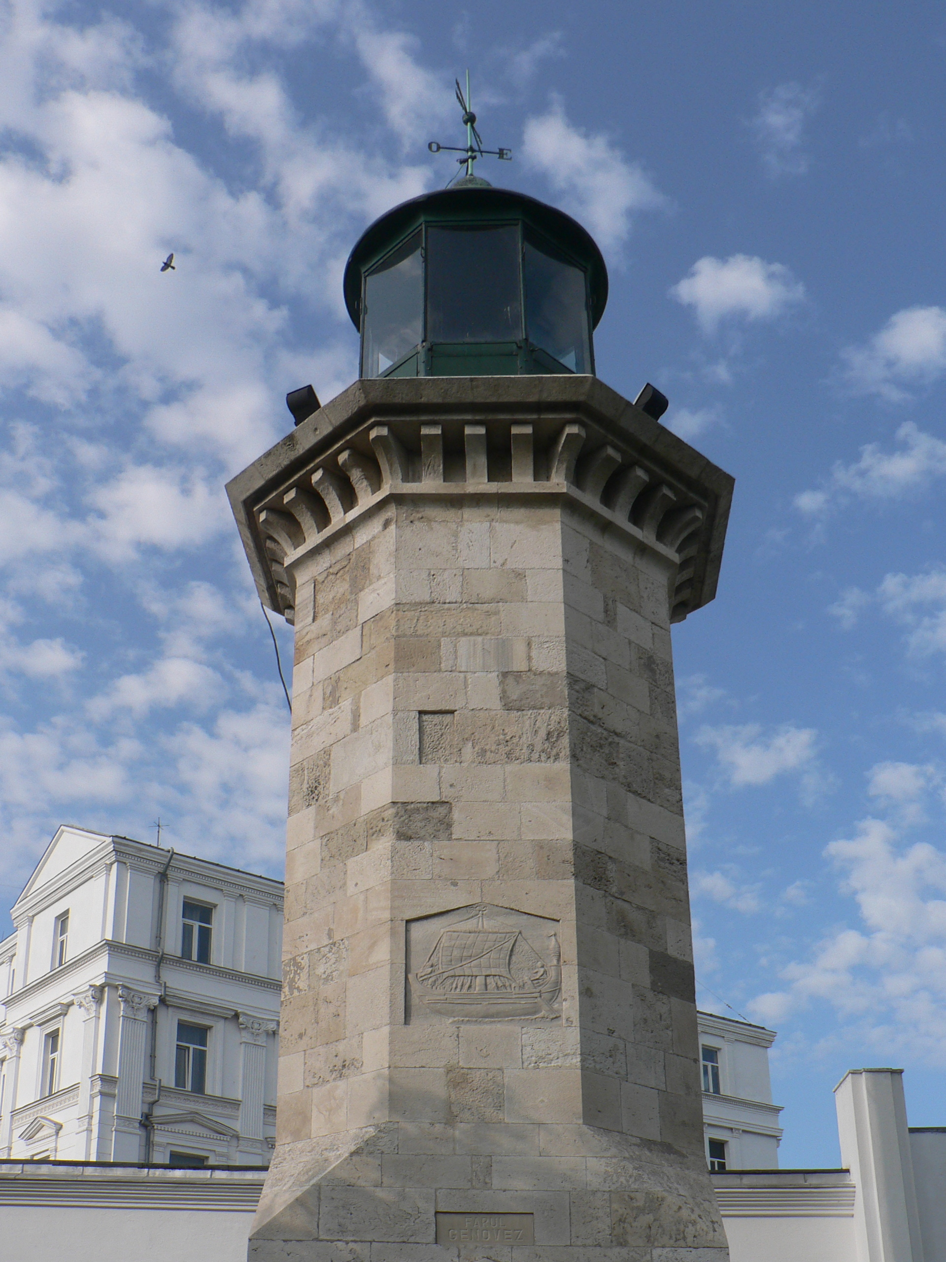 Lighthouse in Constanţa